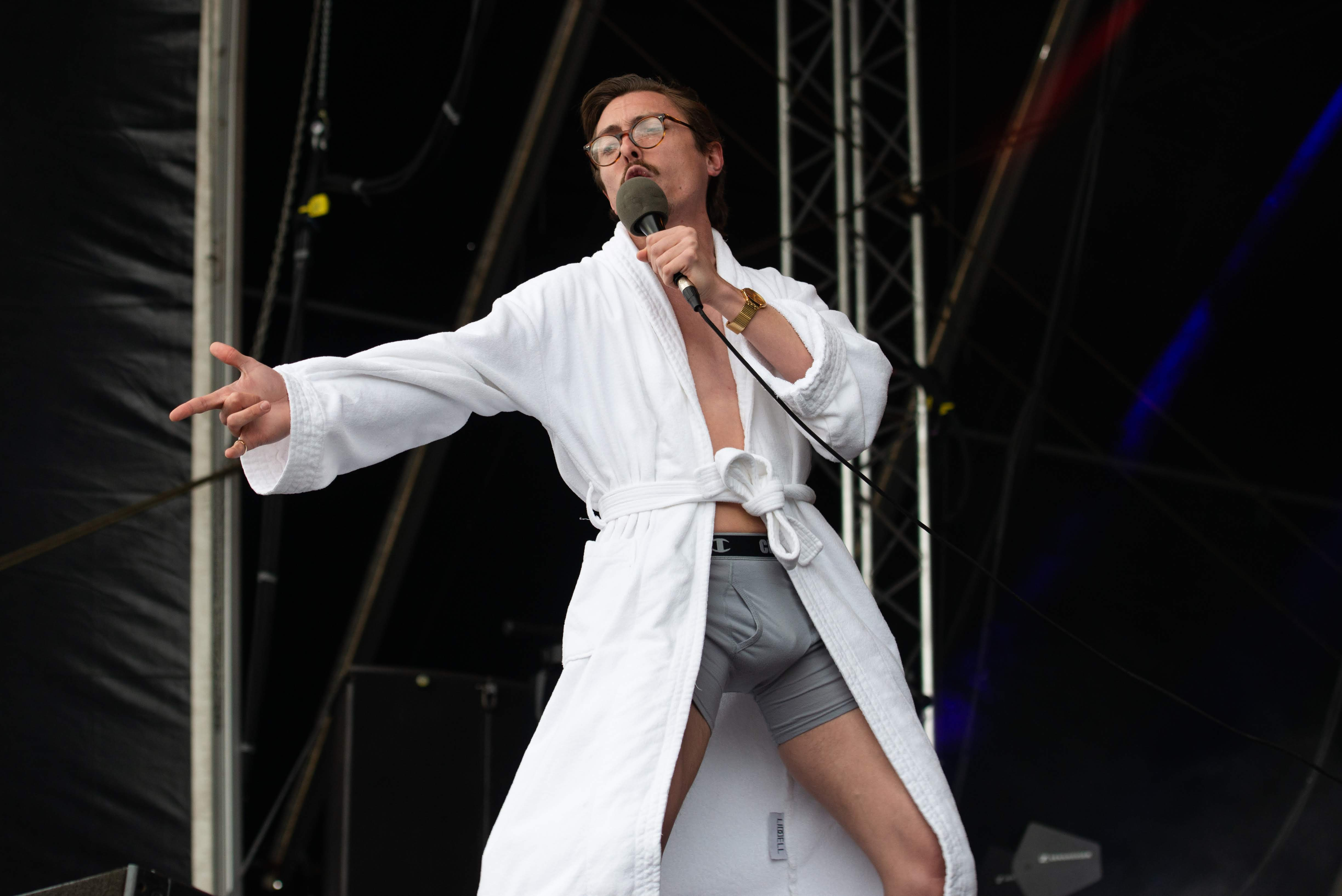 Marc Rebillet performing at The Beatyard in Dublin, mid 2019.